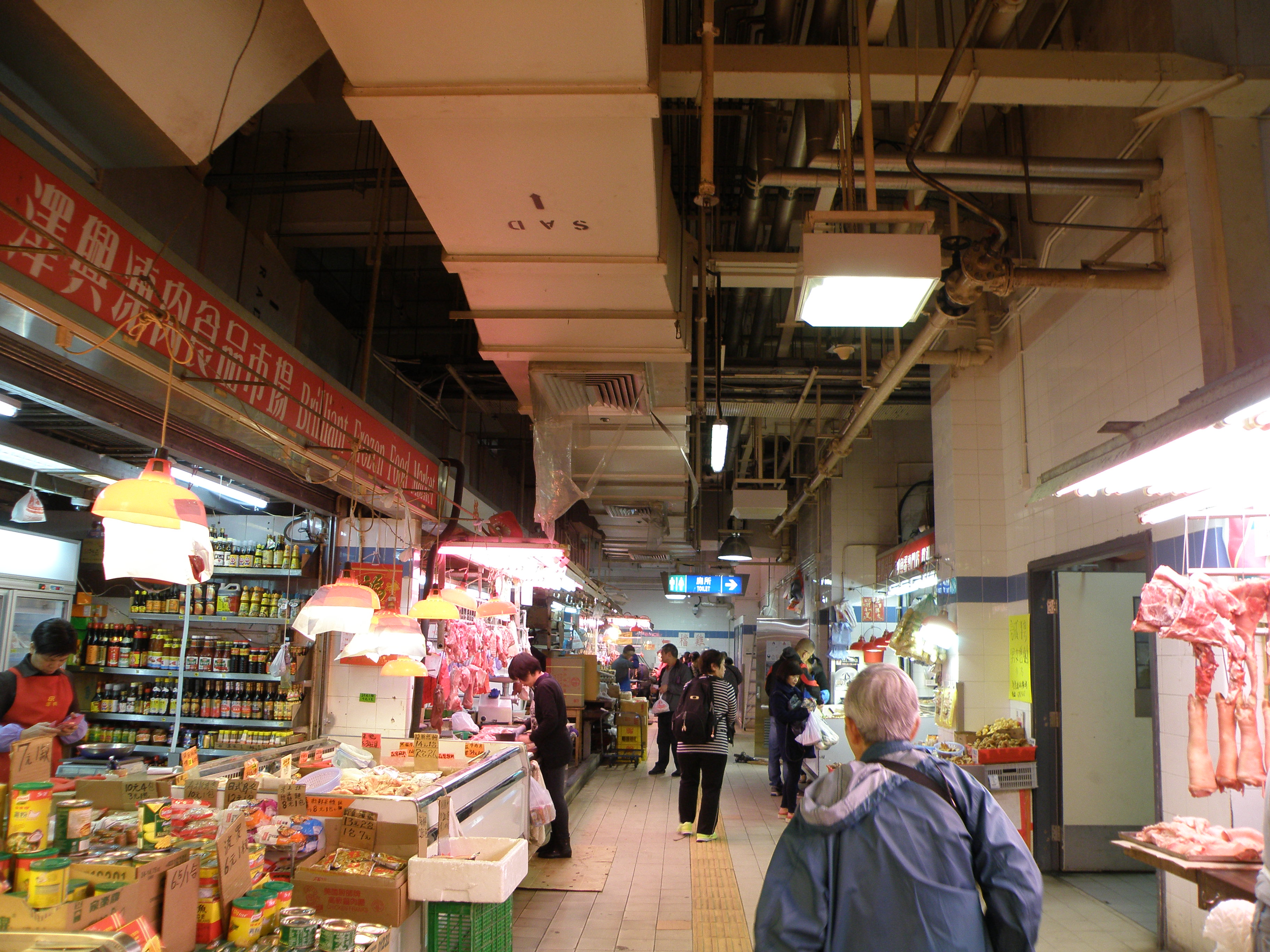 Chai Wan Market in Chai Wan, Hong Kong.